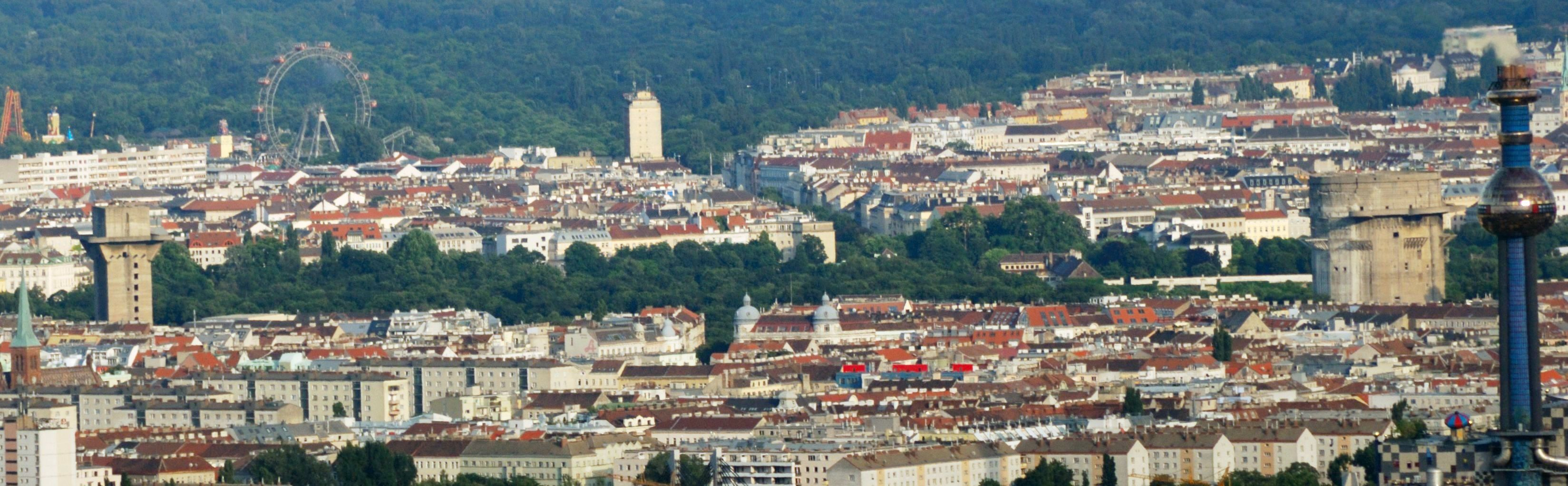 Pair of Flaktürme in the Augarten, Vienna (AT)